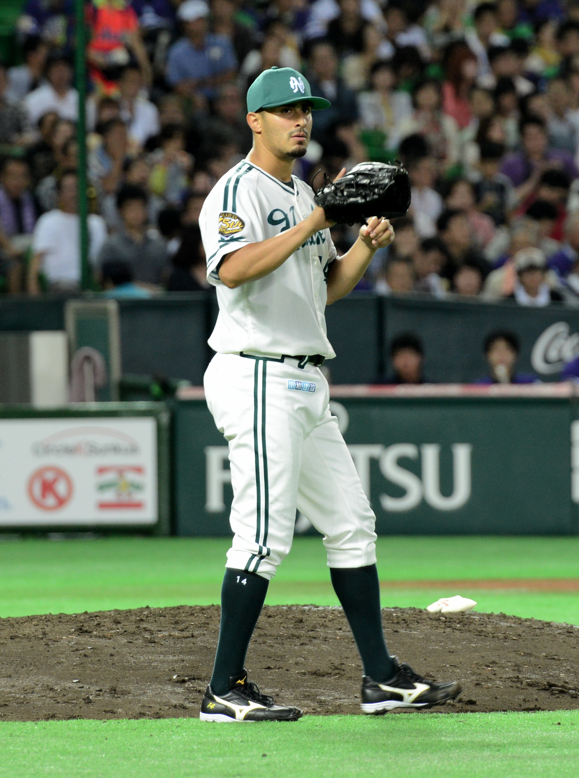 Paul Oseguera, pitcher of the Fukuoka SoftBank Hawks, at Fukuoka Dome.